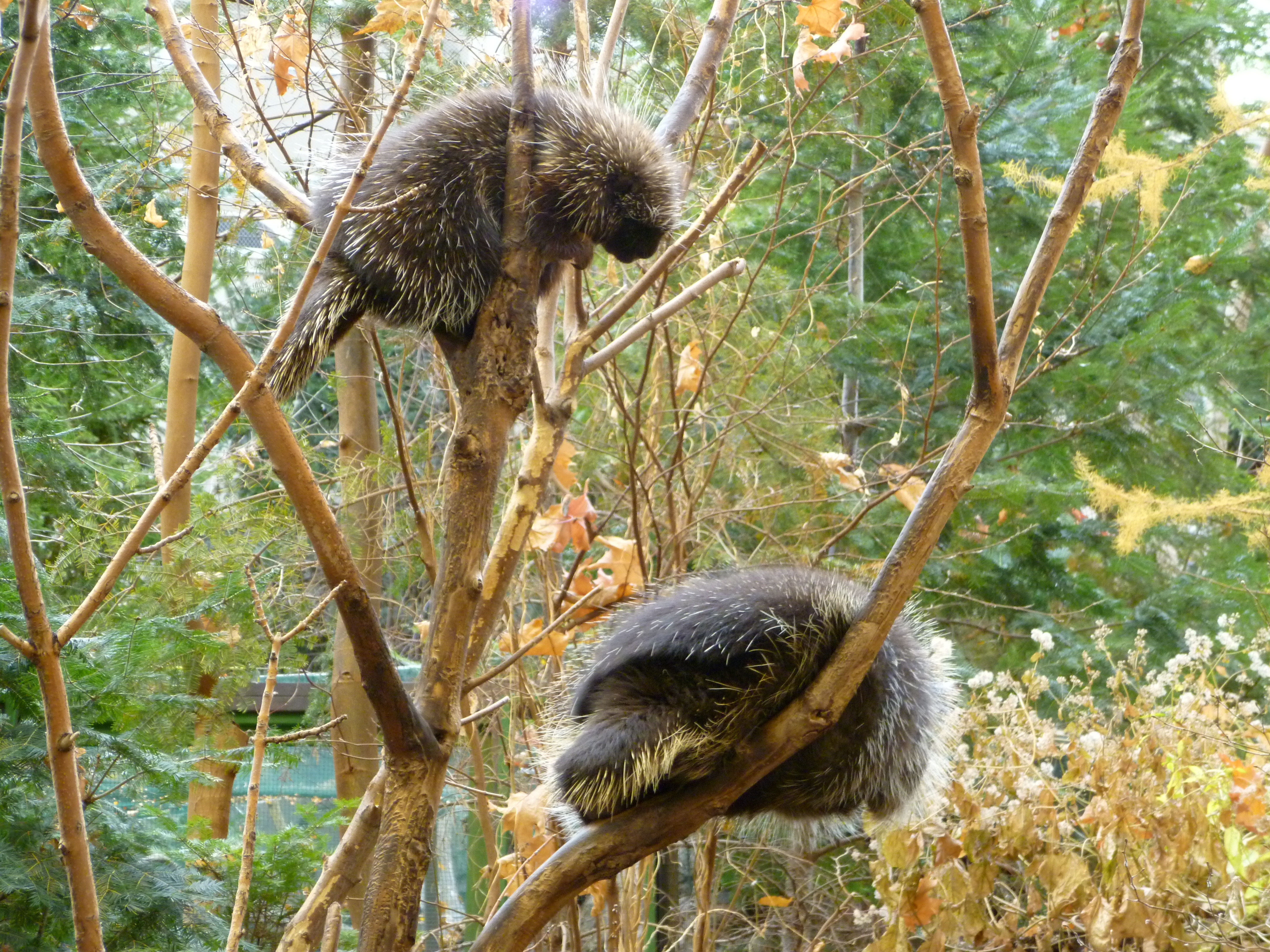 Photograph of two North American porcupines photographed in Quebec, Canada